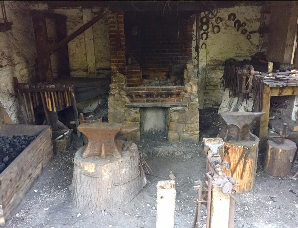 17th-Century coal forge in Little Woodham, also known as "The Living History Village of Little Woodham" or "The Seventeenth Century Village", is a living museum dedicated to recreating life in a rural village in the mid-17th century. It is situated in ancient woodland in Rowner, on the Gosport peninsula, Hampshire, England.